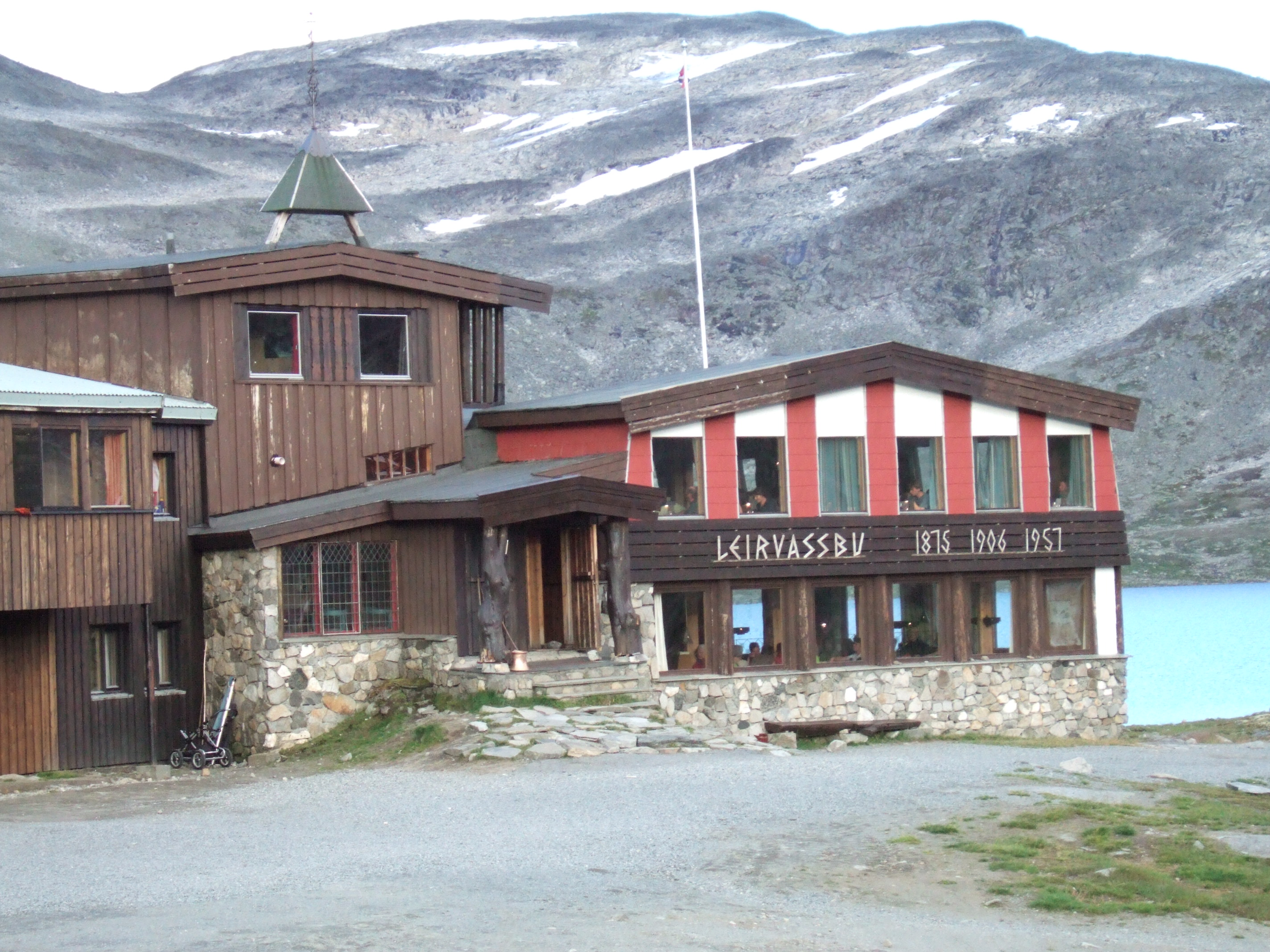 Tourist hotel in Jotunheimen National park